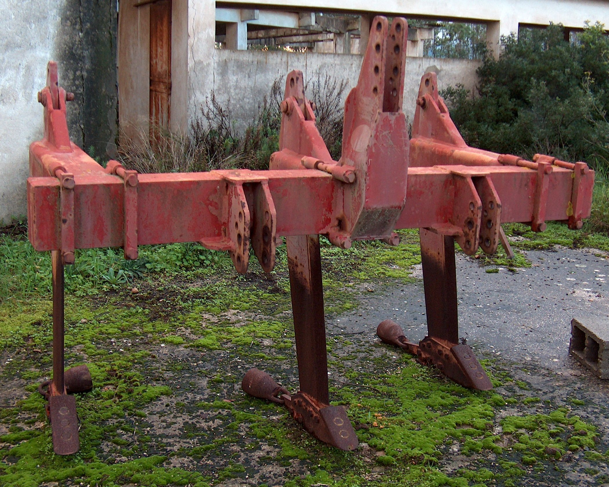 Ripper tillage – Professional Institute of Agriculture and Environment "Cettolini" of Cagliari (Sardinia, Italy) – Associated School of Villacidro (Sardinia, Italy)